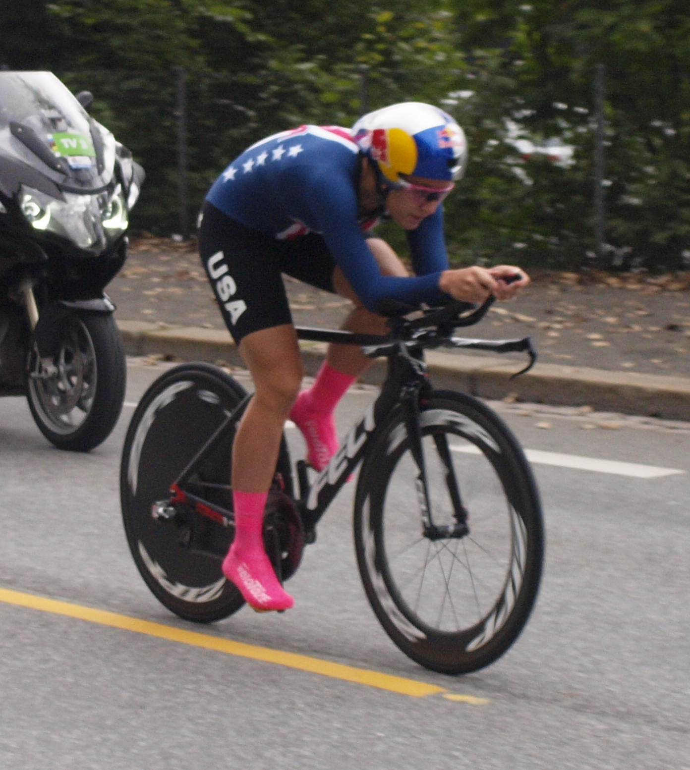 Chloe Dygert at the 2017 UCI World Championships